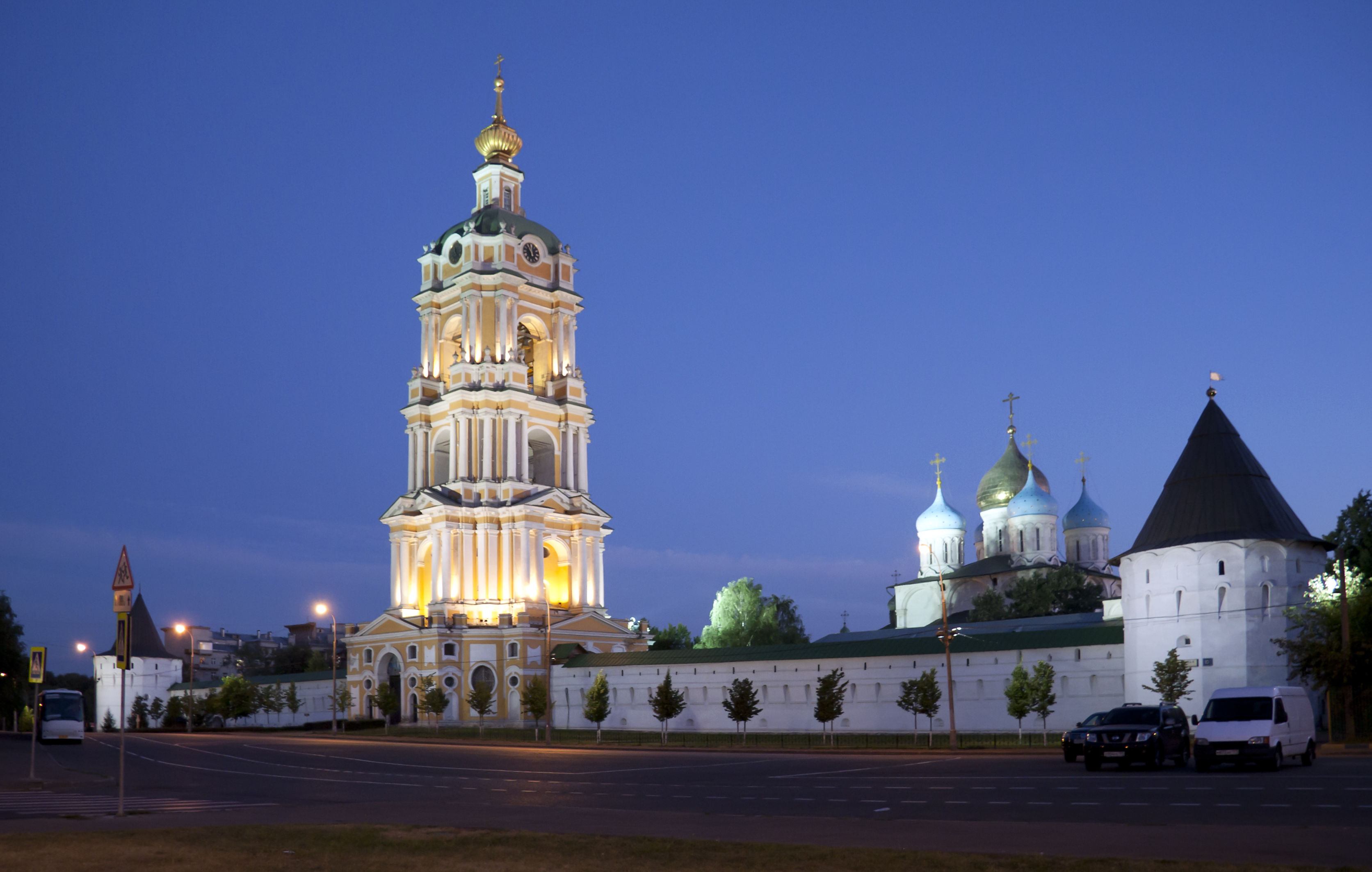 The Novospassky Monastery in Moscow.